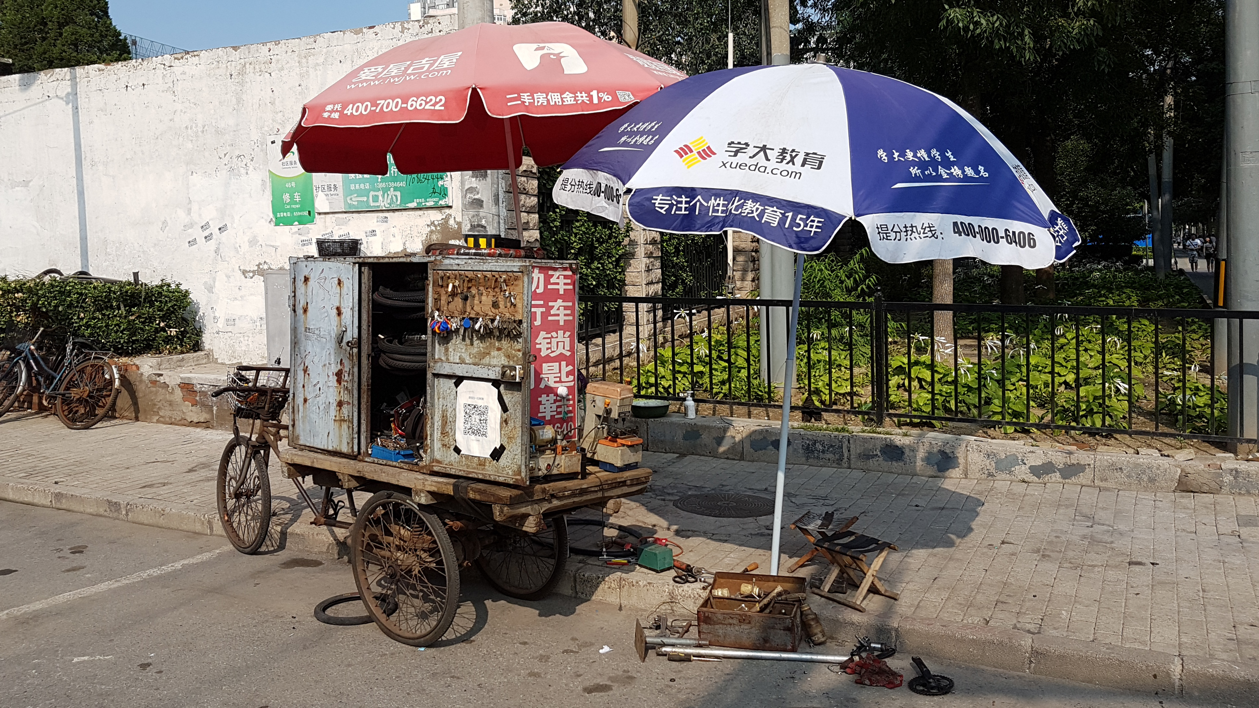 Mobile Locksmiths & Tire Repair in Beijing, China